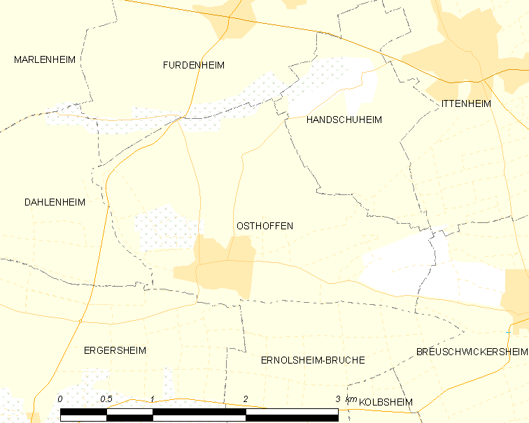 Map of French municipality